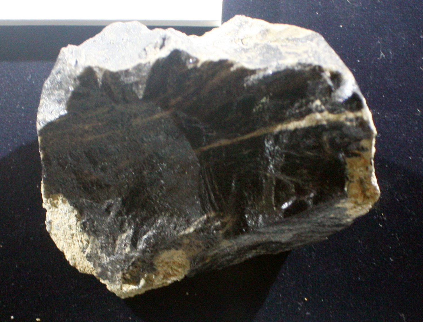 Impact glass from Zhamanshin crater in the museum space in Moscow